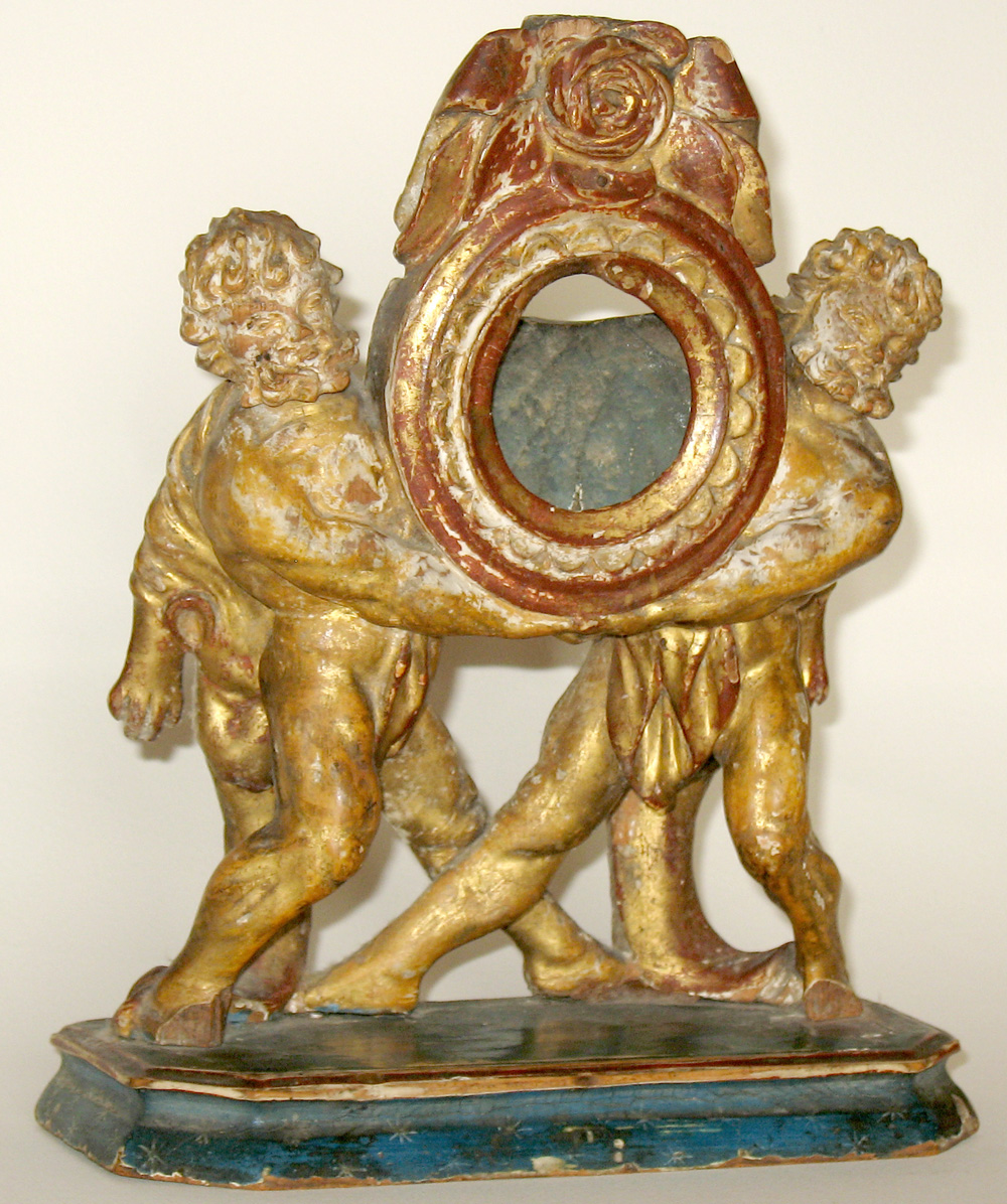 Watch stand Val Gardena late 18th century.